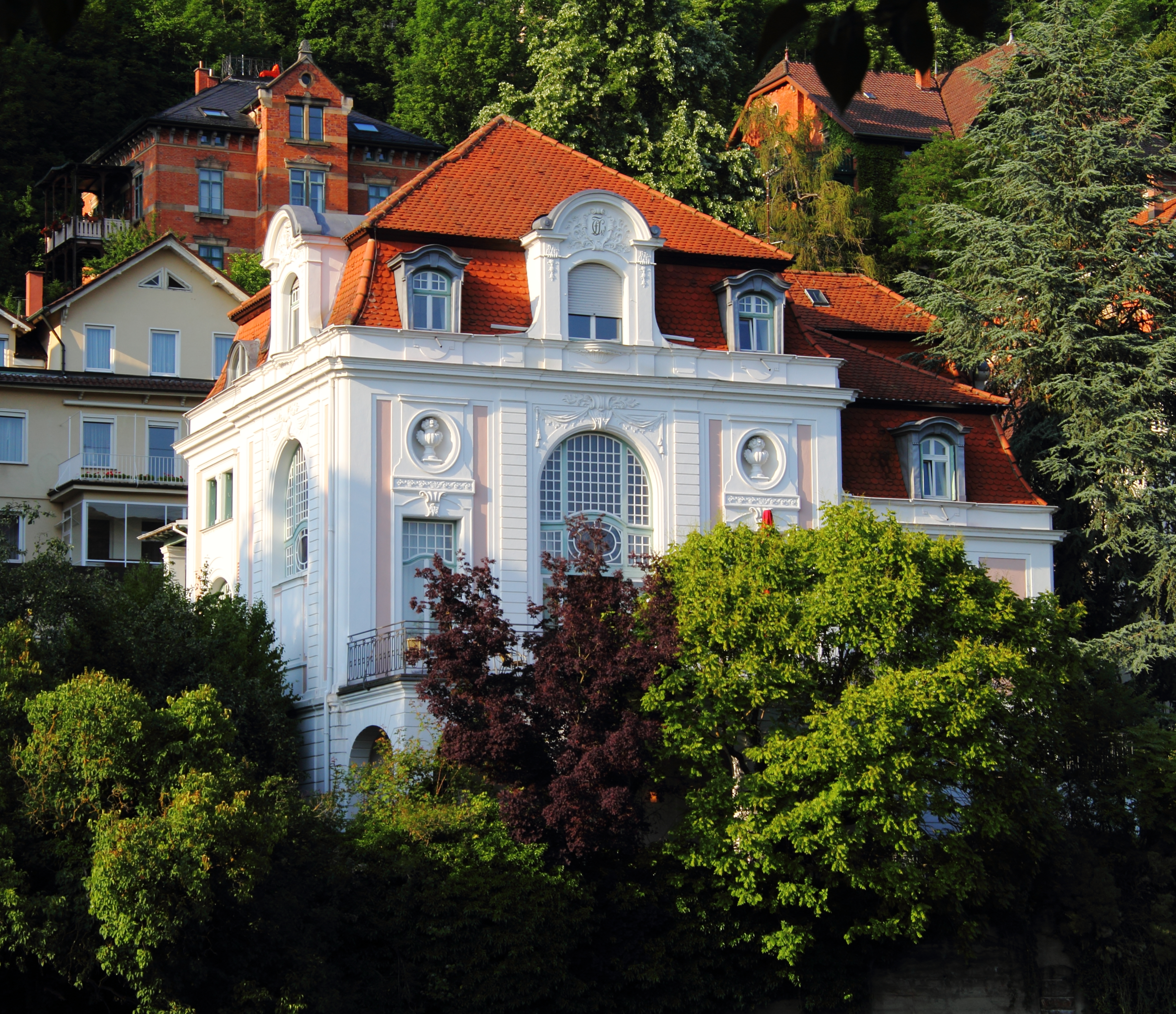 Former house of student fraternity Corps Suevia Tübingen, Gartenstrasse 12, Tübingen